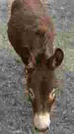 Example of Low quality (Q10) JPEG compression. Photo by David Crawshaw.